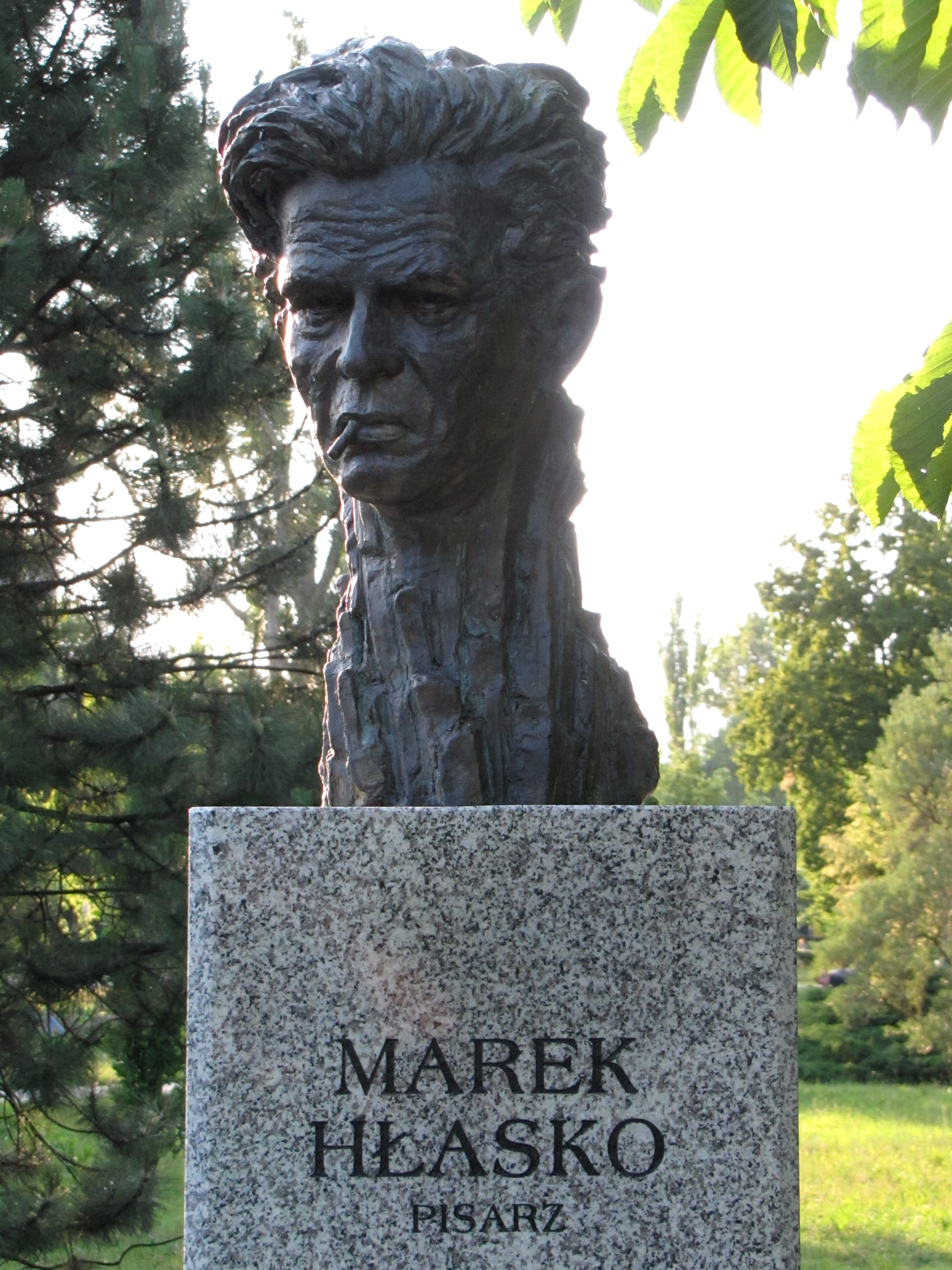 Bust of Marek Hłasko in Celebrity Alley in Kielce (Poland)